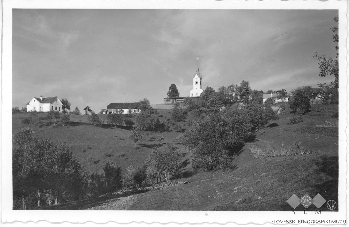 Postcard of Prežganje